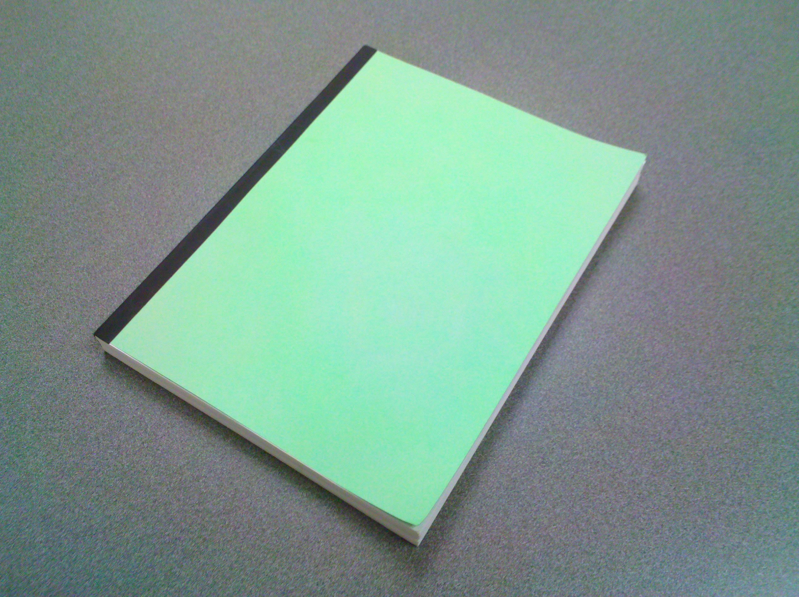 Paperback book with green cover.